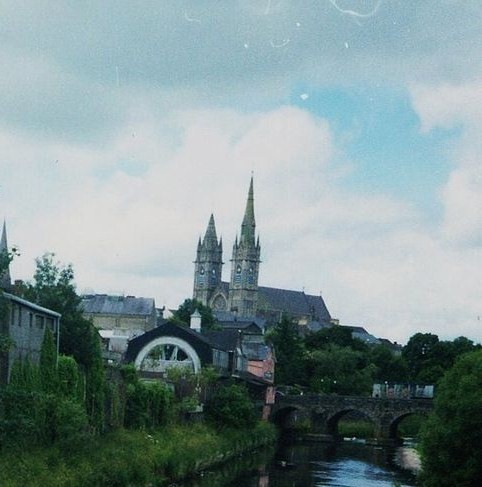 Omagh as seen from Strule Bridge, 2001